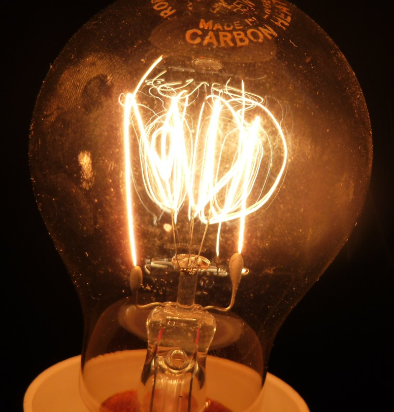 A low power carbon filament lamp